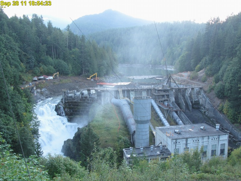 Half of the Elwha (Lower) Dam missing with the Elwha River flowing fully through the hole